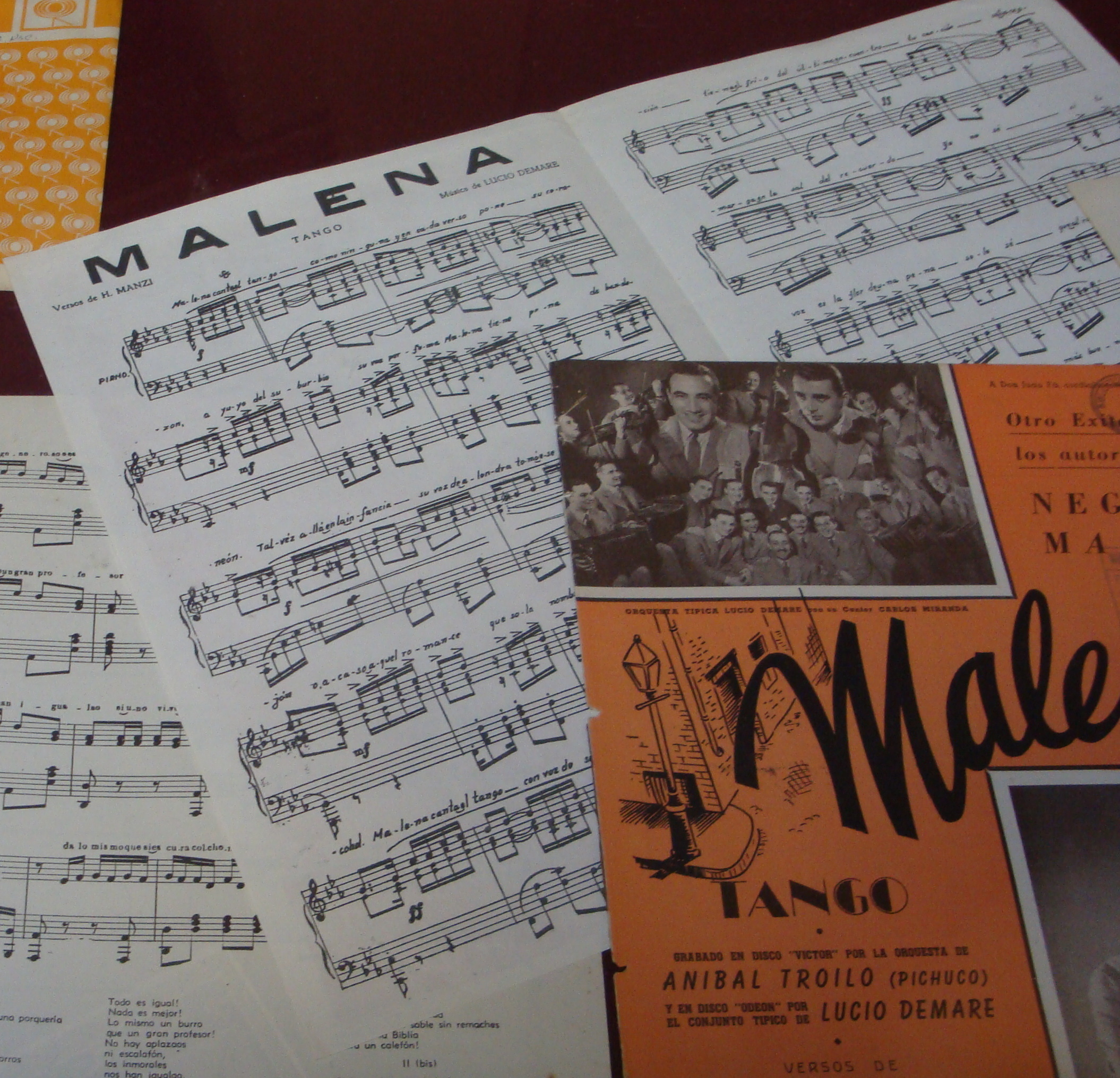 Lyrics of "Malena" expuesta en la Casa Rosada, Buenos Aires